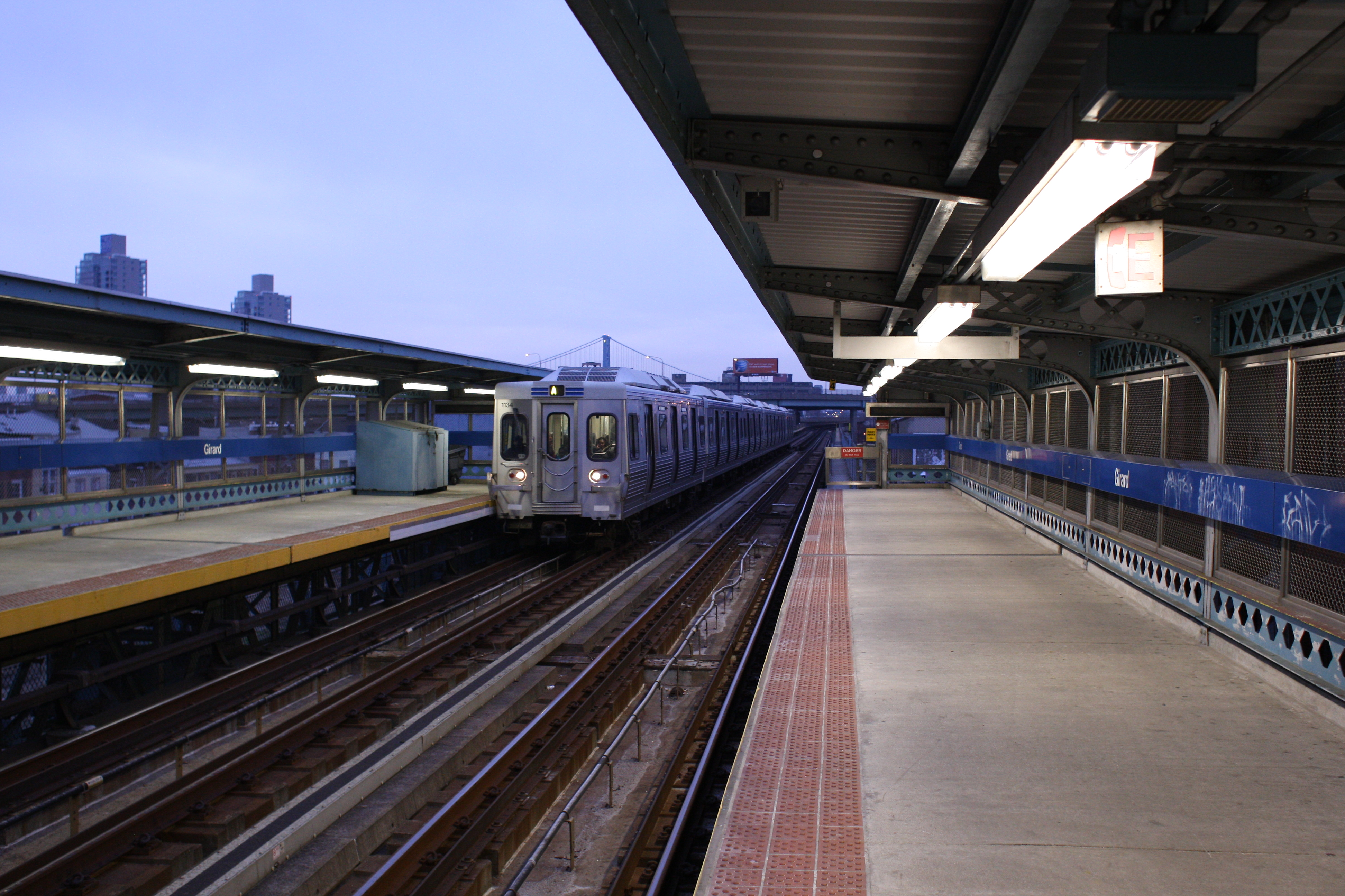 A Market–Frankford-Line train of M-4 cars arriving at Girard station, looking south. A pylon of the Benjamin Franklin Bridge is in the background. The underpass in front of it indicates the location of the Interstate 95, in whose median there is the Spring Garden station. Market–Frankford-Line, Philadelphia, Pennsylvania.